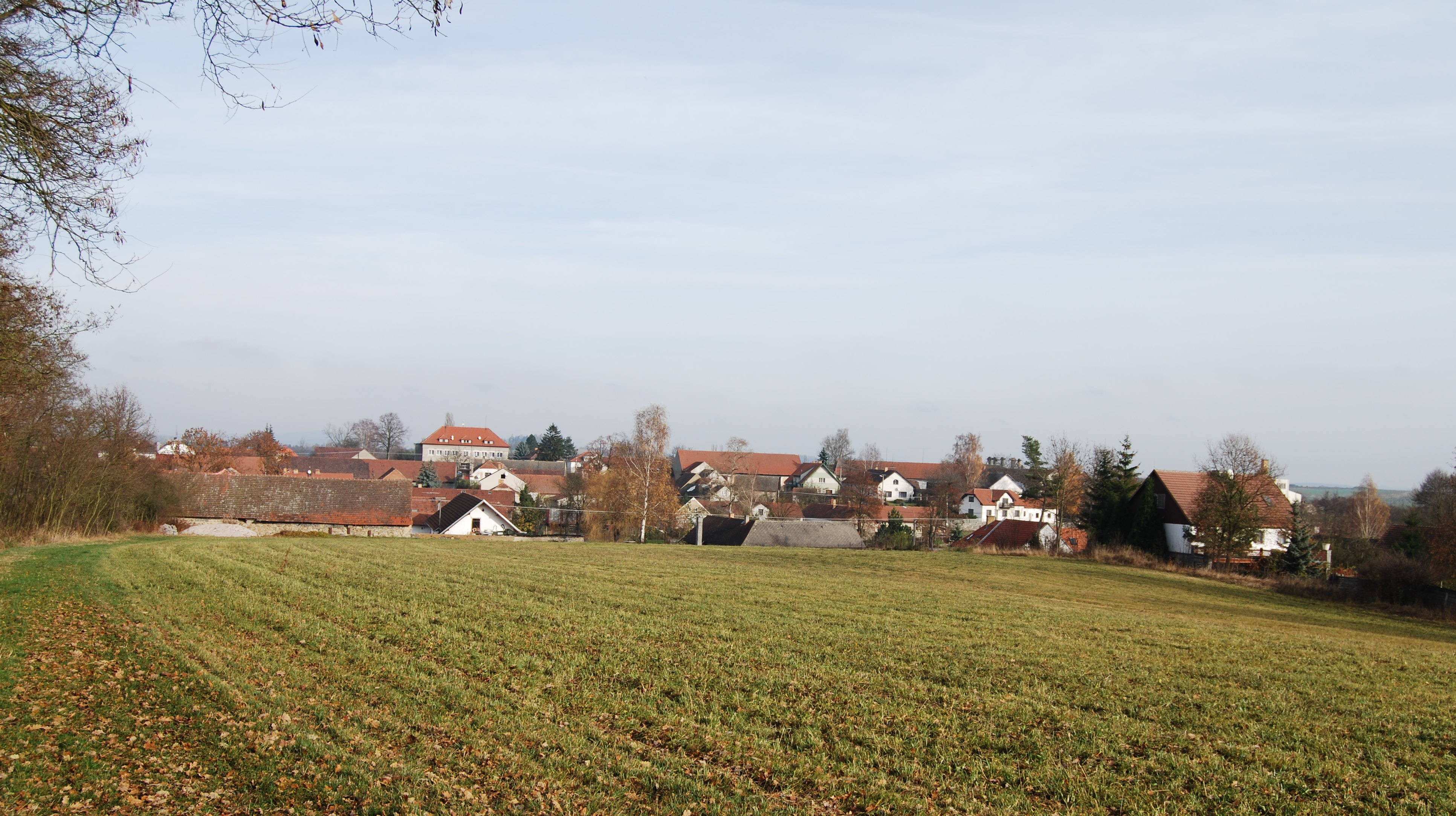 Hudčice village in Příbram District, Czech Republic.